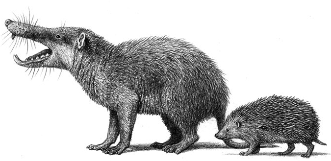 Figure 2: Hoplitomeryx and the insular fauna of Gargano. Example of the highly endemized association of Gargano, with a reconstructed life appearance of the giant hedgehog Deinogalerix (in scale with modern Erinaceus europaeus). Artwork by Mauricio Antón.